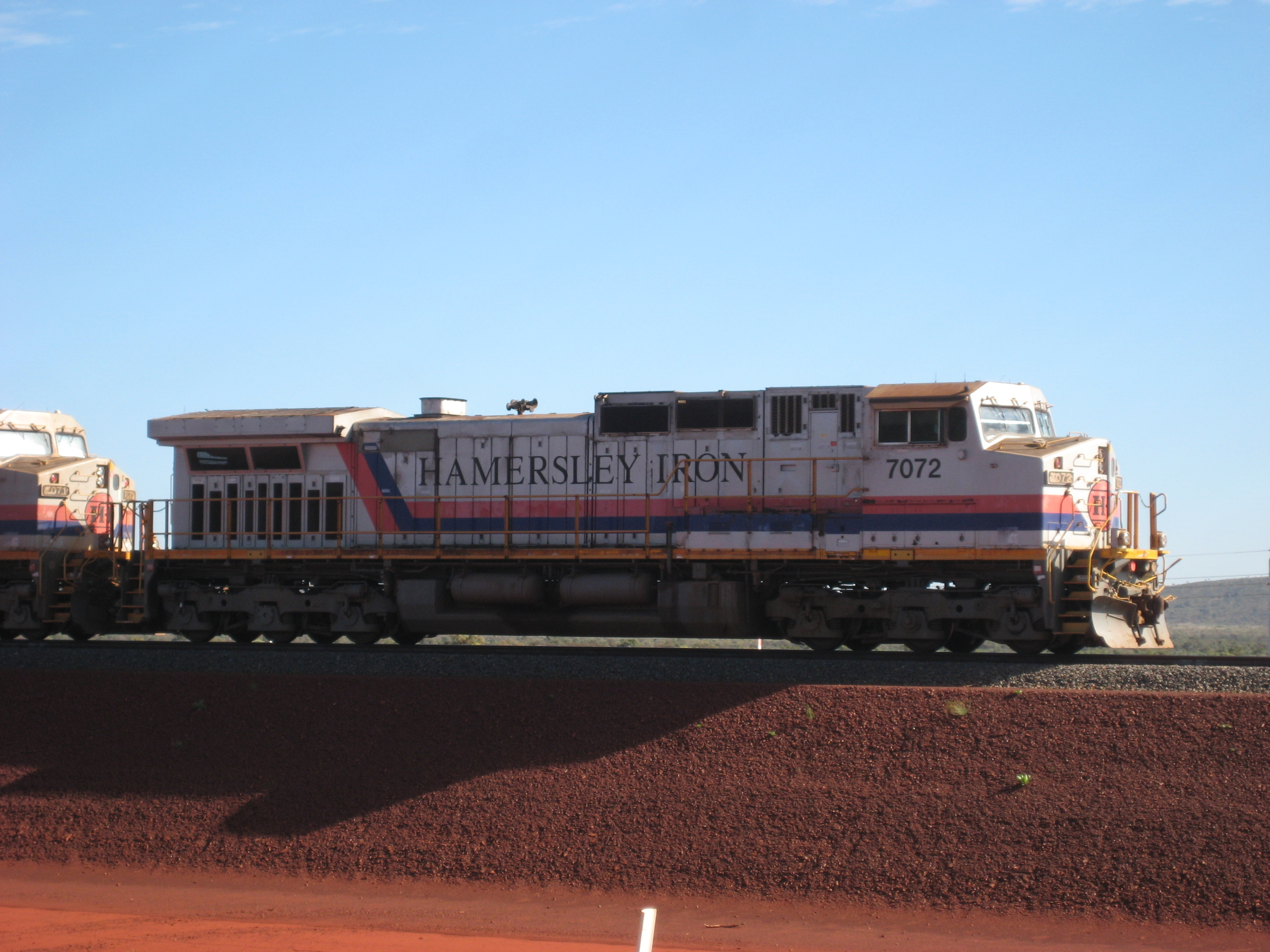 An iron ore train leaving the Brockman 4 mine, Western Australia.